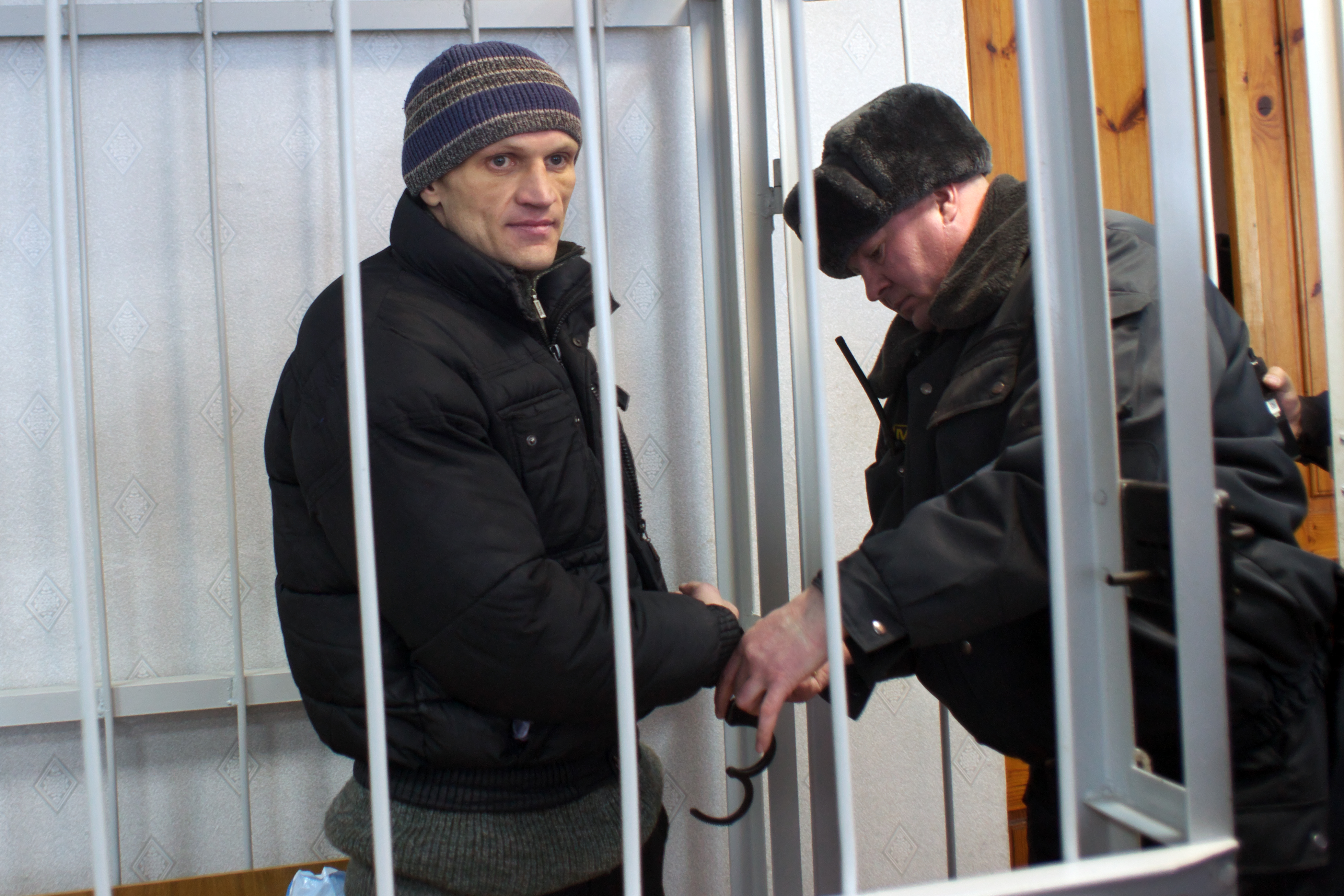 Siarhei Kavalenka is a Belarusian political activist and member of the Conservative Christian Party